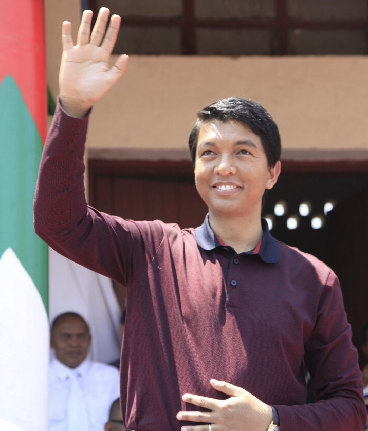 Andry Rajoelina, President of Madagascar during the transition greeting the crowd in Tananarivo.